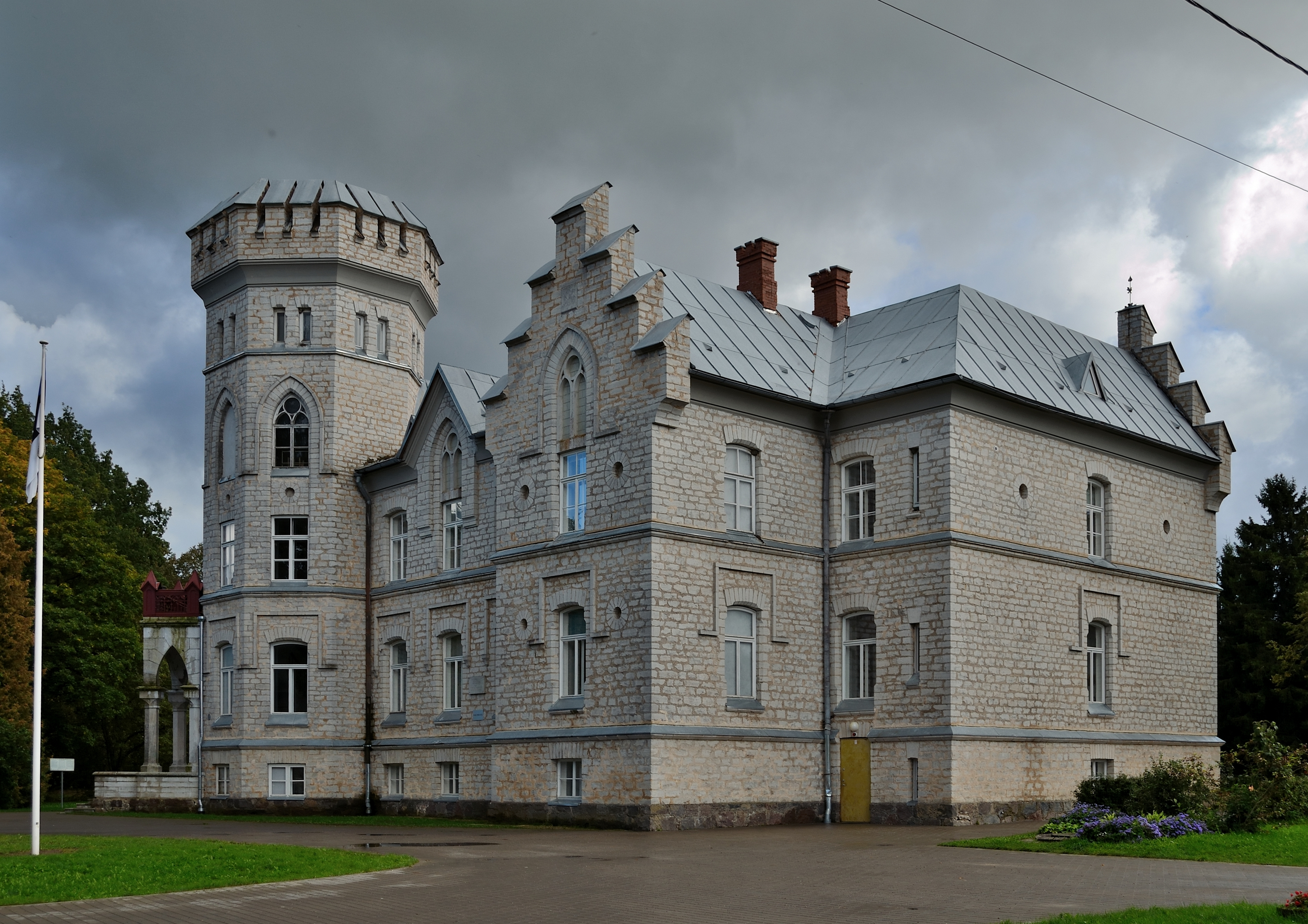 Vasalemma manor main building, 1893 This photograph was taken with a Nikon D3100